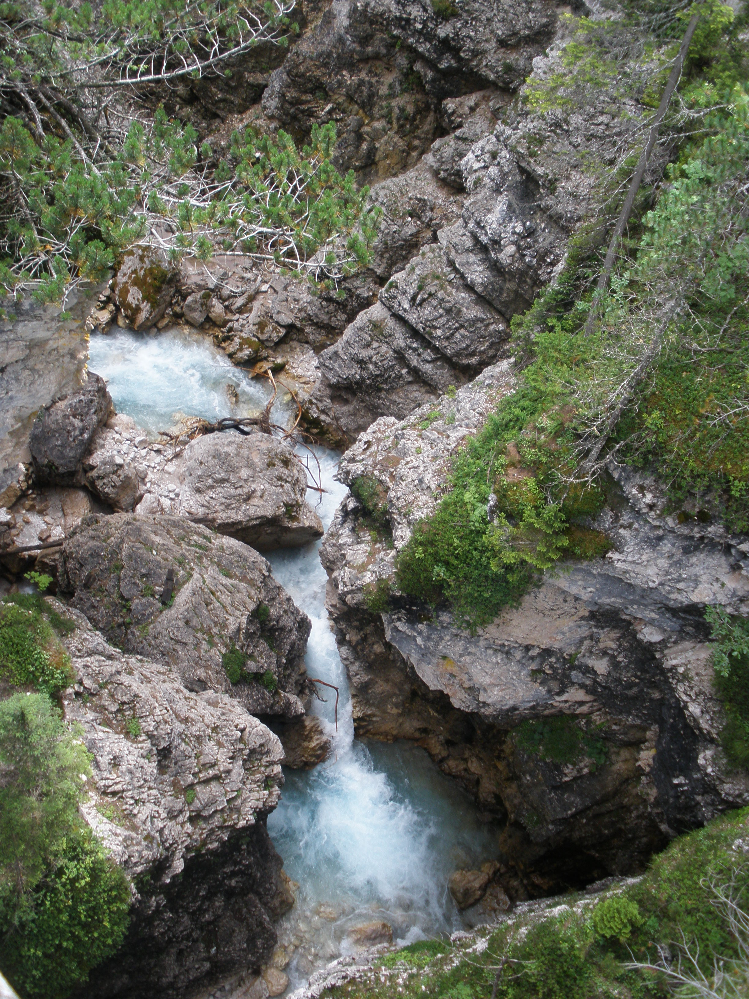 The canyon of the "rio" (river) Travenazes in the Dolomites, near Cortina d'Ampezzo, Italy.